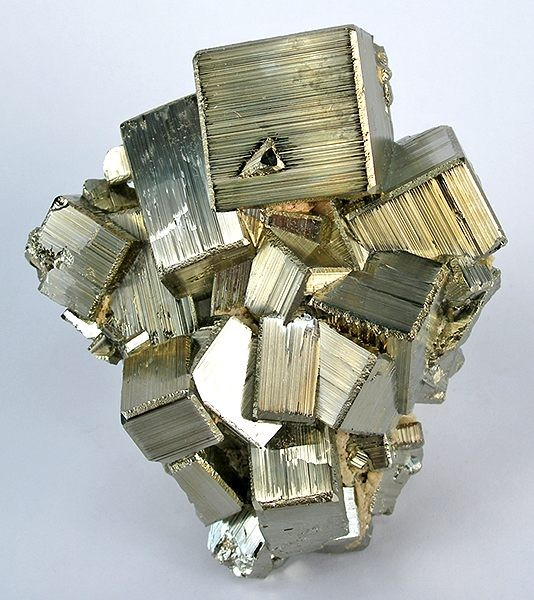 Pyrite Locality: Huaron Mining District, San Jose de Huayllay District, Cerro de Pasco, Daniel Alcides Carrión Province, Pasco Department, Peru (Locality at ) Size: 9.2 x 8.2 x 3.4 cm. Incredible quality! Cubes to 2.7 cm on edge, intricately and minutely beveled, make this a VERY fine pyrite specimen that stands far above the crowd. Ex. Charlie Key Collection.